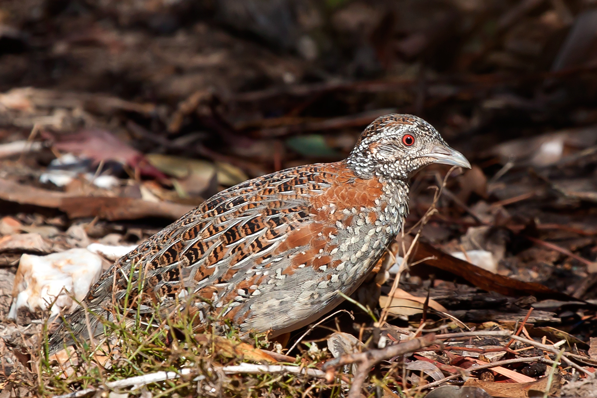 A Painted Buttonquail in Victoria, Australia.